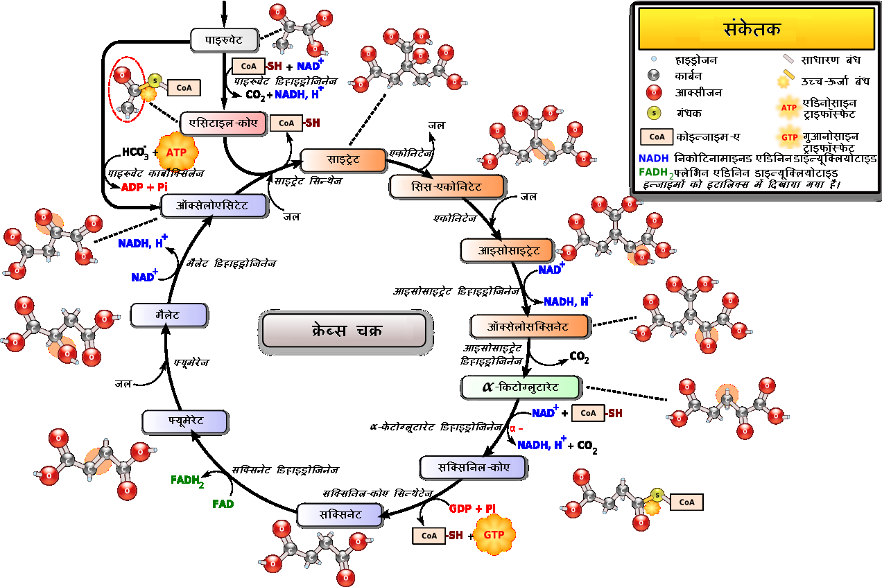 Tricarboxylic acid cycle (also known as the citric acid cycle) and some preceding steps